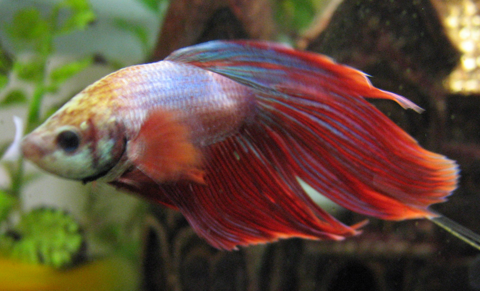 "Memnon" a cambodian coloured male Betta owned by the author. Image By User:Pharaoh Hound.